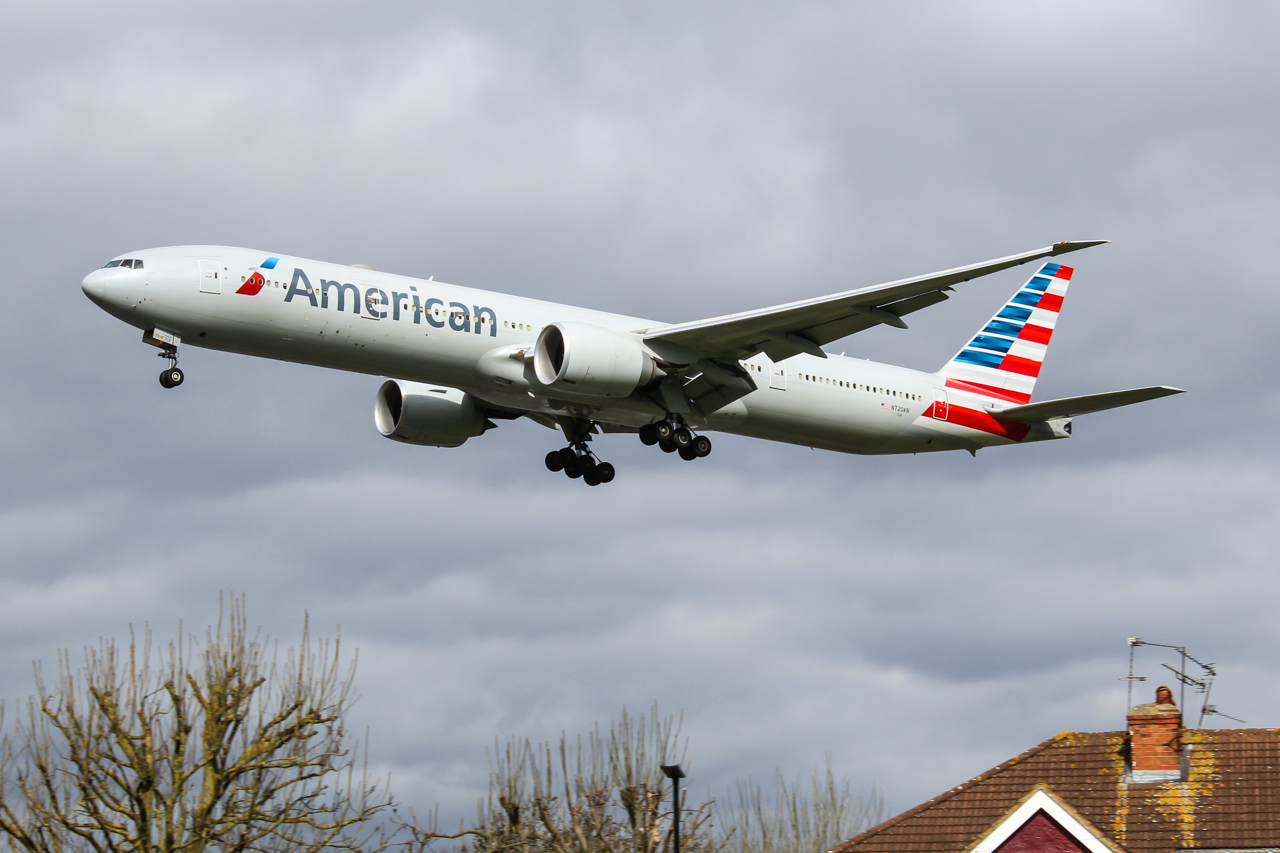 N720AN Boeing 777 American